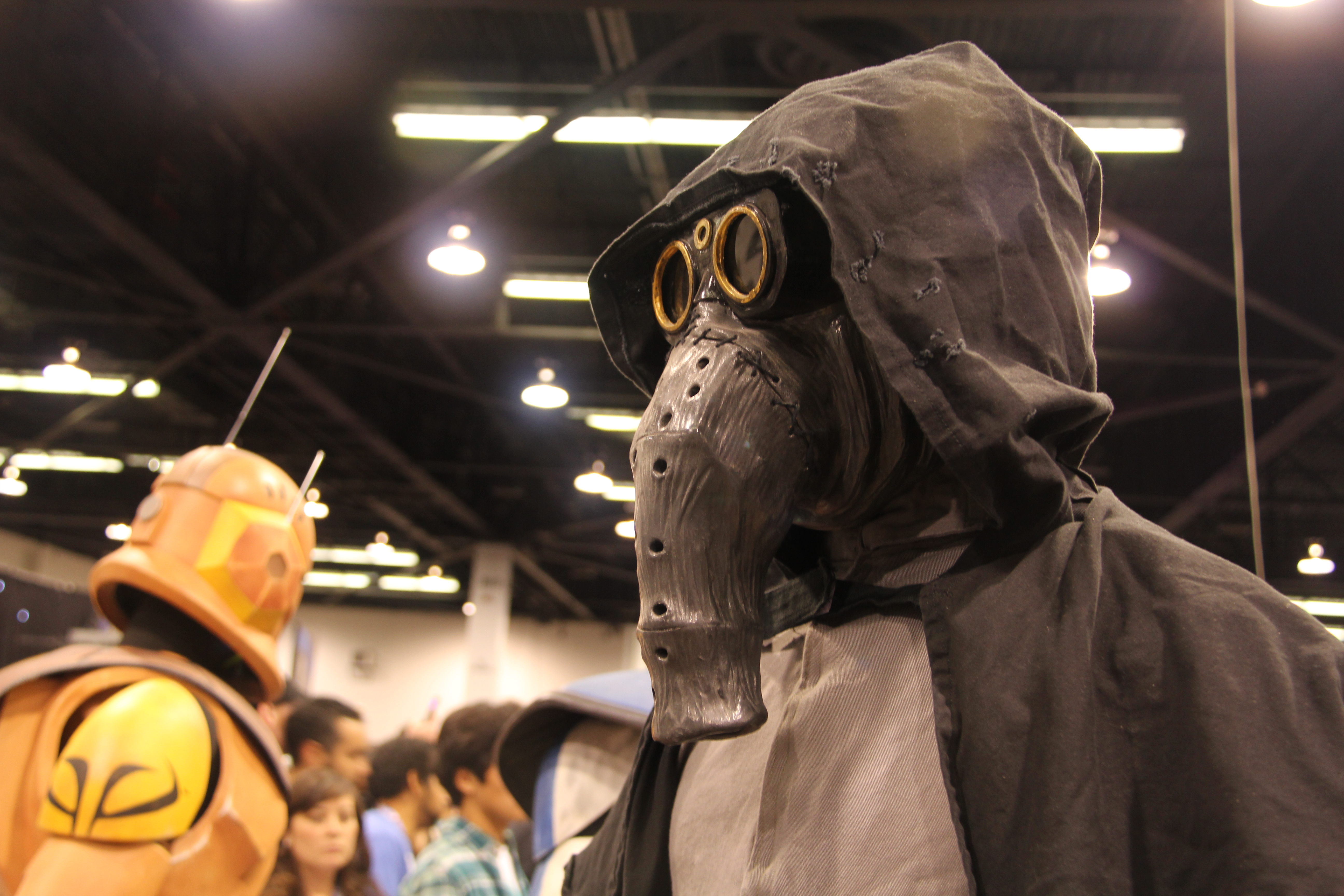 Garindan, aka Long-Snoot, costume Star Wars Celebration in Anaheim, April 2015.